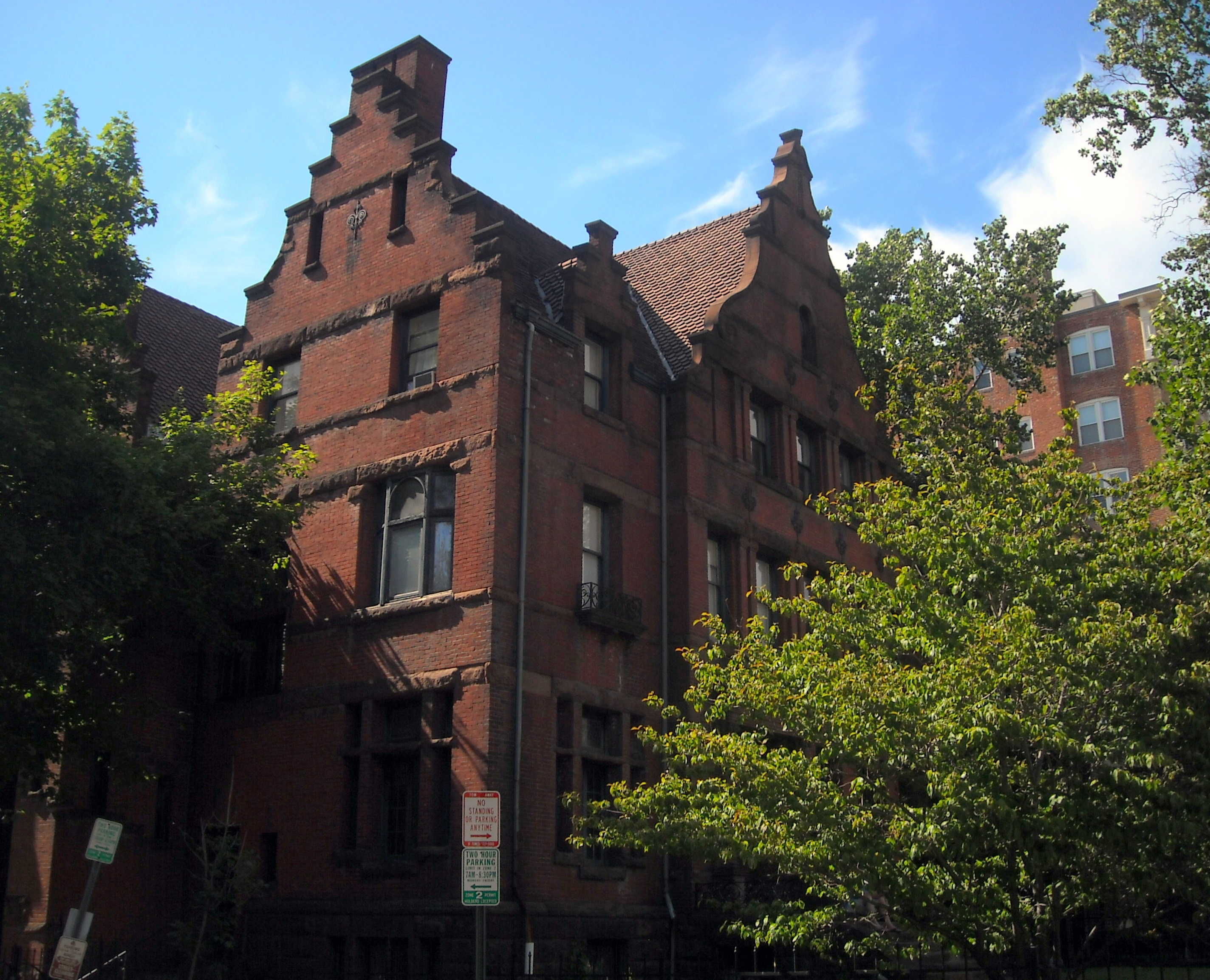 The Toutorsky Mansion located at 1720 16th Street, NW in the Dupont Circle neighborhood of Washington, D.C.